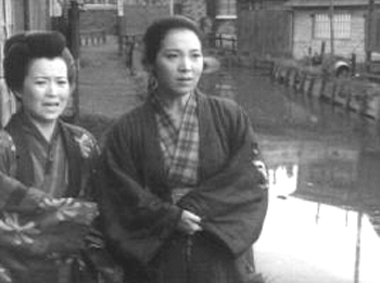 still photo of "Taiyo no nai Machi"